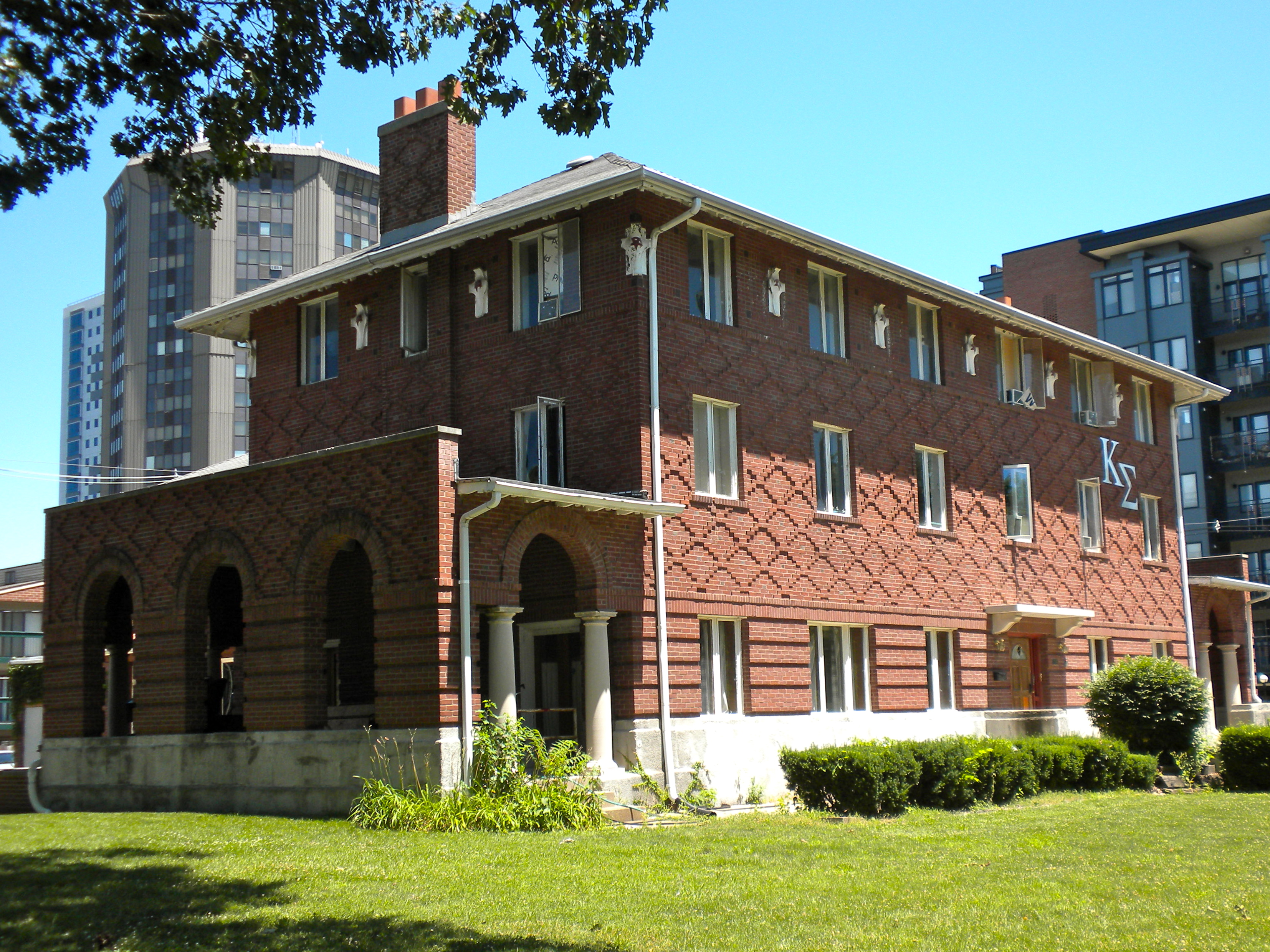 Kappa Sigma Fraternity House at the University of Illinois on NRHP since August 28, 1989. At 212 E. Daniel St., Champaign, Illinois